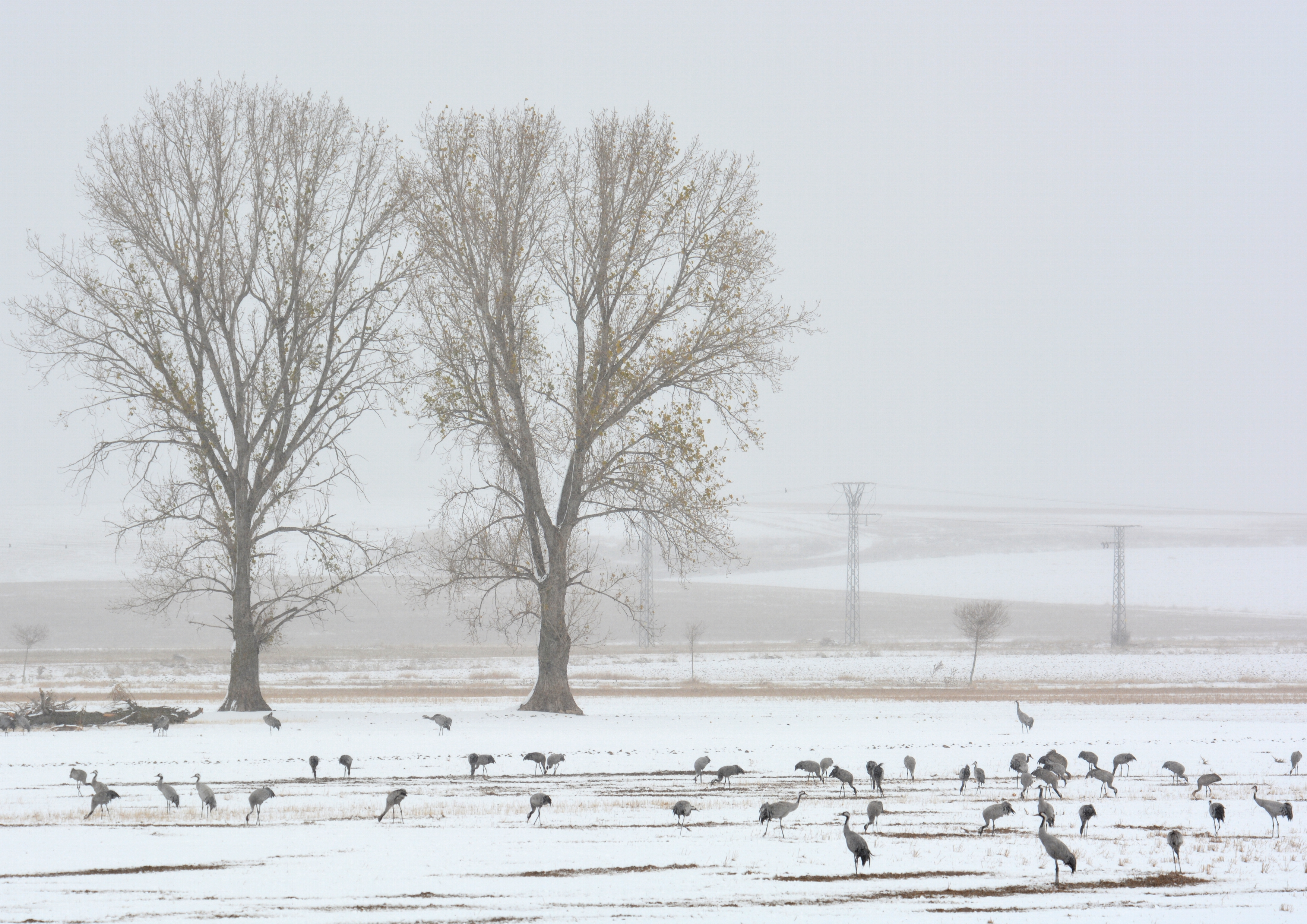 This is a photography of a Special Area of Conservation in Spain with the ID: ES2430043. Natura2000 entry, EEA entry